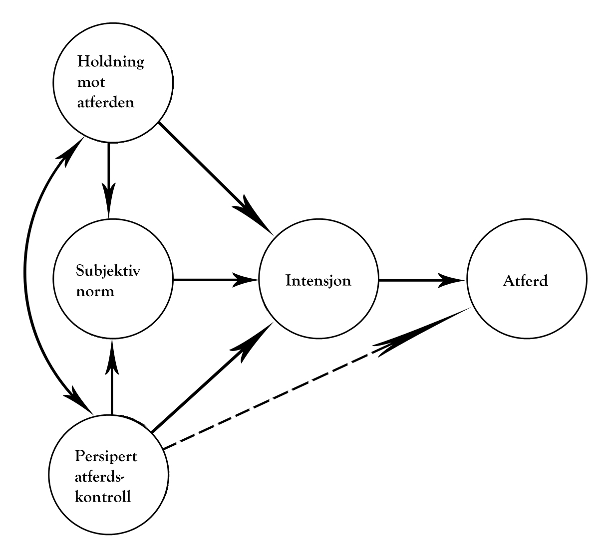 Norwegian translated version of the Theory of Planned Behavior. Adapted from Ajzen, Icek (1991): "The theory of planned behavior" Organizational behavior and human decision processes, 50(2), 179-211.